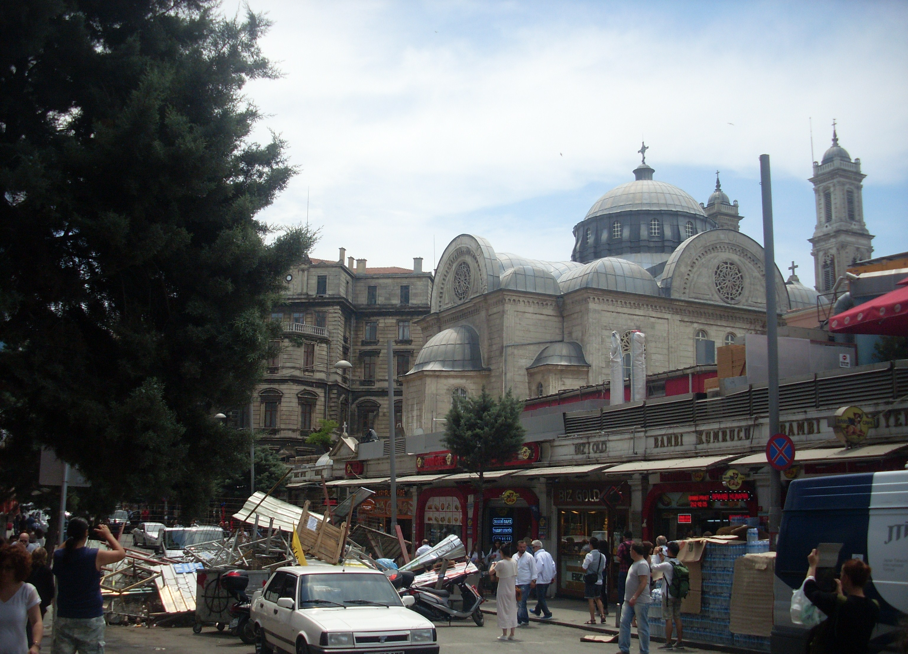 2013 Taksim Gezi Park protests, Barricades errected by protesters at Taksim, Sıraselviler Street (5th Jun 2013)